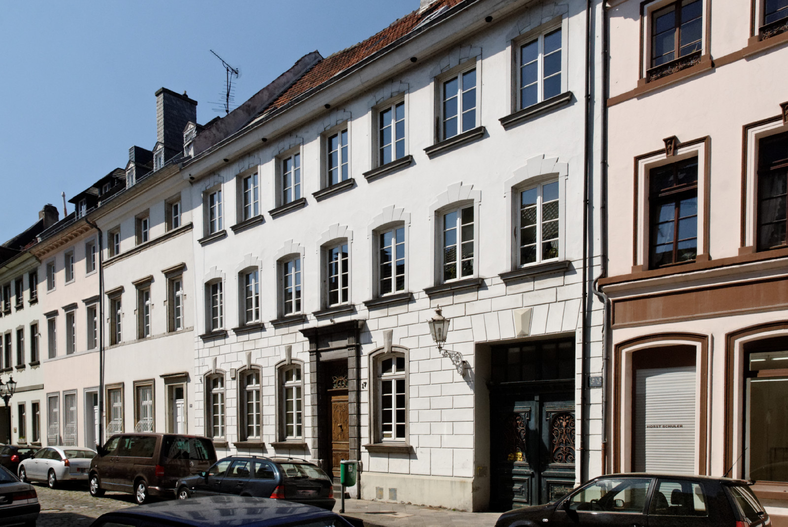 House Citadellstraße 17 in Düsseldorf-Carlstadt, Germany